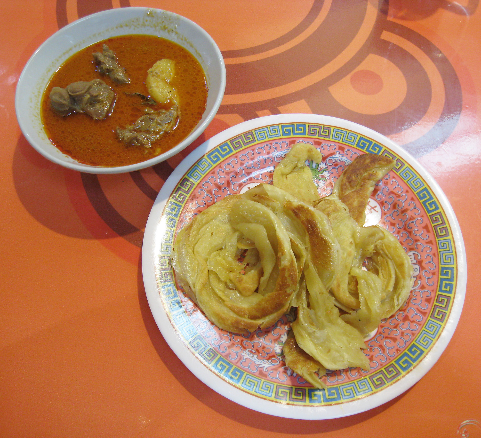 Roti Cane (Canai) served with goat meat and potato curry, in an Aceh Restaurant. Roti Canai is Indian influenced dishes commonly found in Indonesia and Malaysia.